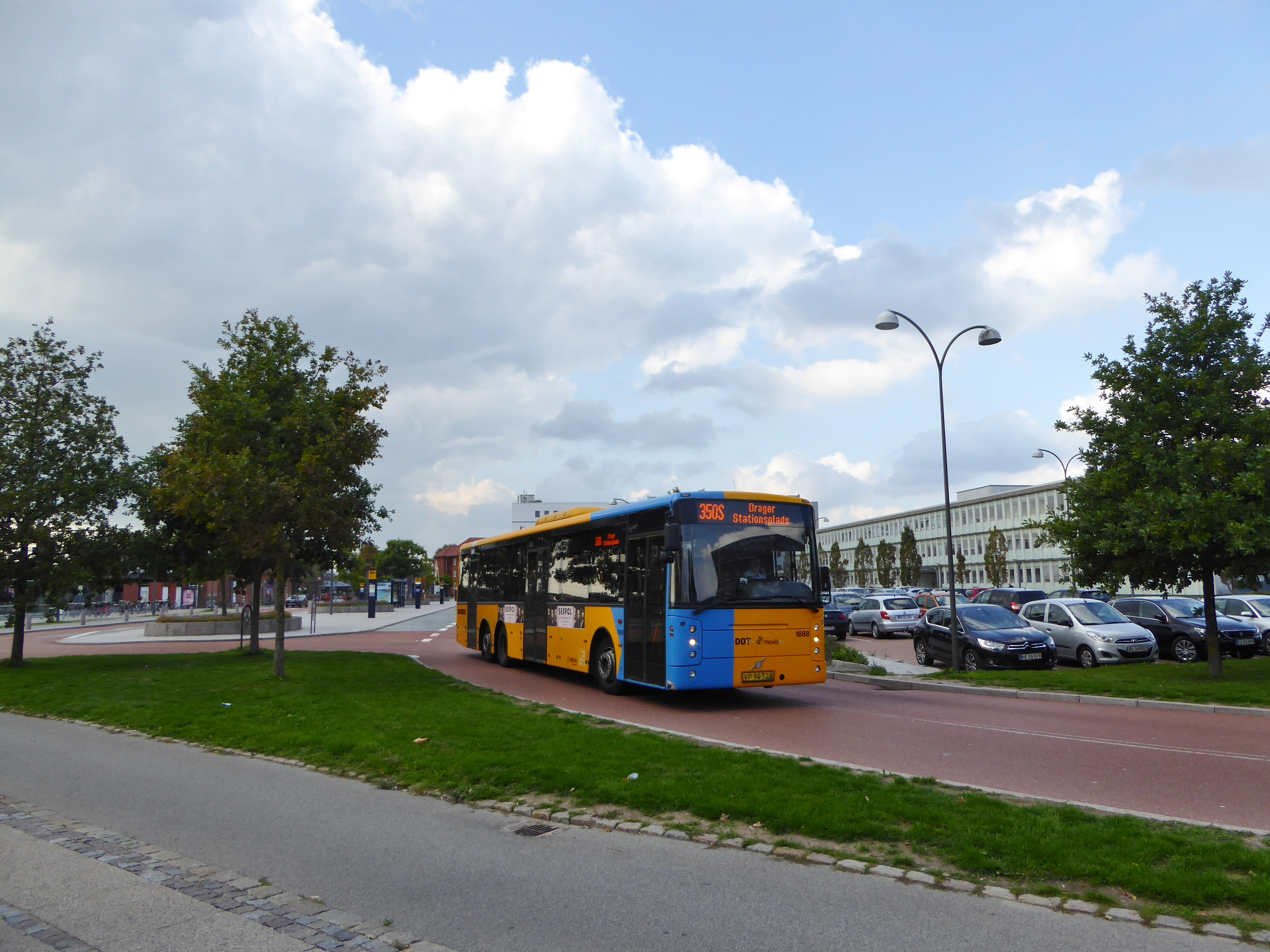 Movia bus line 350S on Stationsalleen in Herlev in Copenhagen.